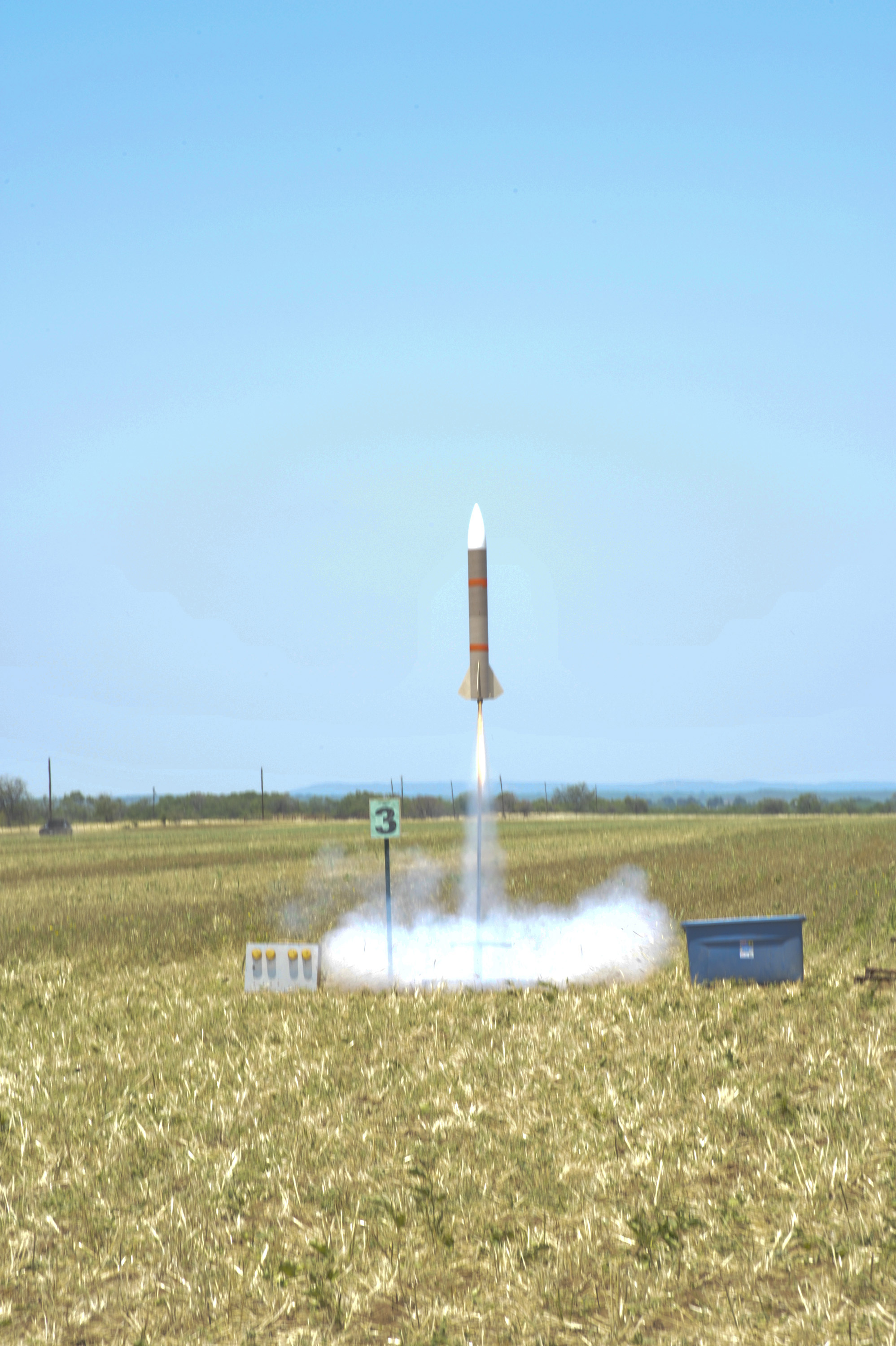 The CanSat teams gather at the launch site in Burkett Texas where their CanSats are placed in rockets that are launched and then recovered for further analysis and scoring.